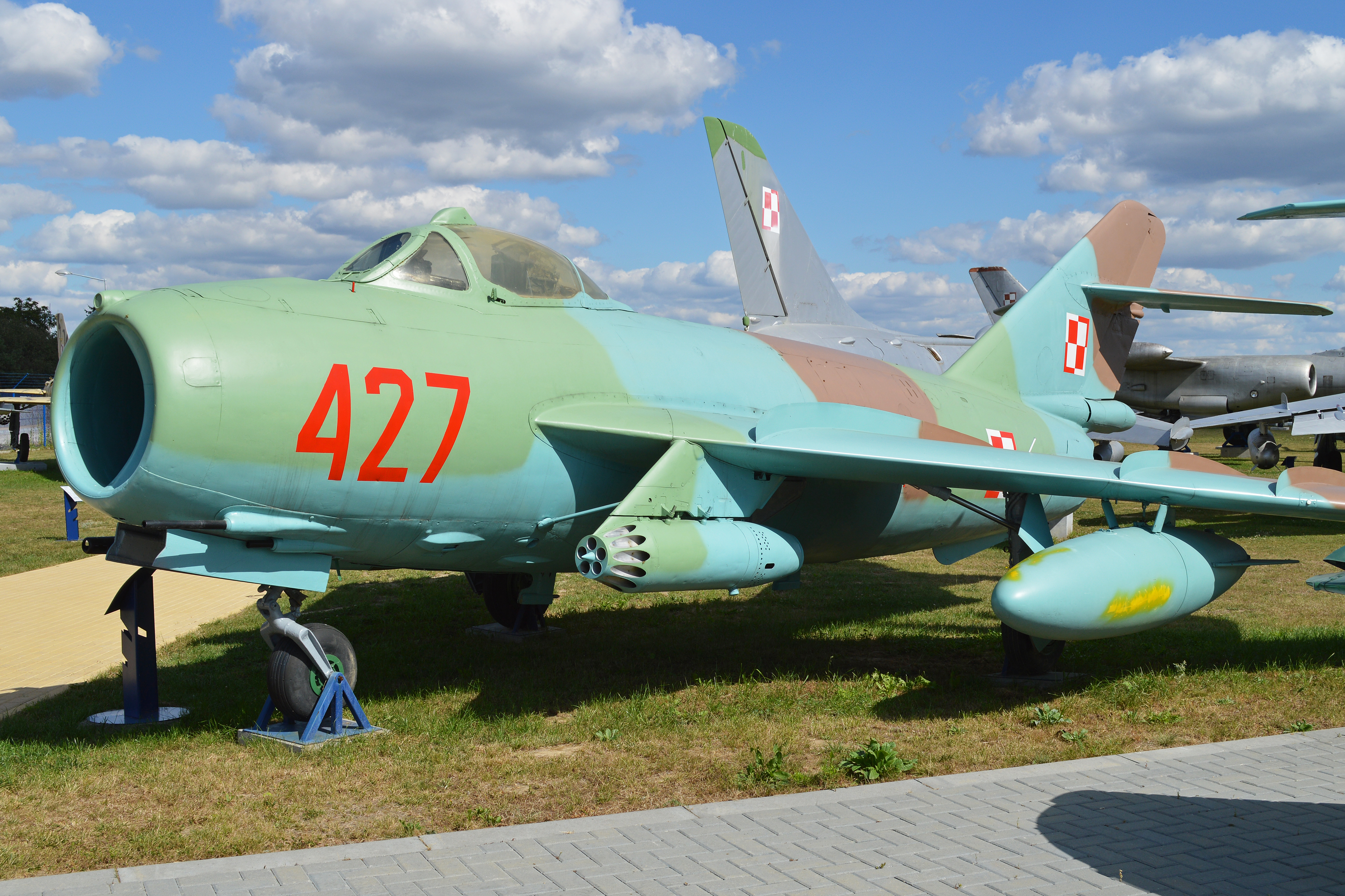 The Lim-6bis was a ground attack version of the Russian MiG-17 fighter, built under license in Poland. The aircraft had underwing weapons pylons near the fuselage and was fitted with a braking parachute. Some of the type remained in service as late as 1992. c/n 1J-0427. On display at the Muzeum Sit Powietrznych. Deblin, Poland. 25-8-2013